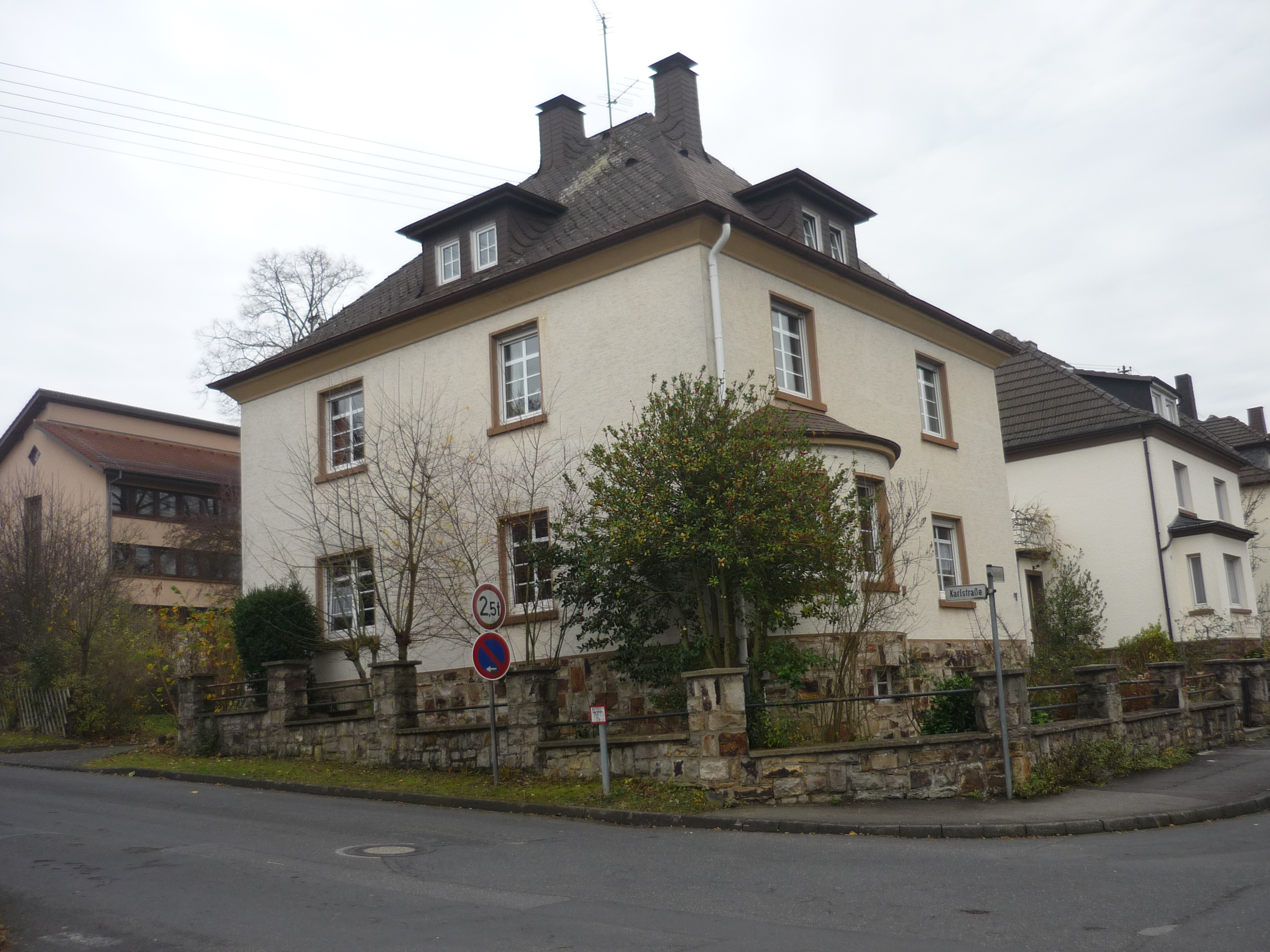 Altenkirchen Westerwald, Parkstrasse